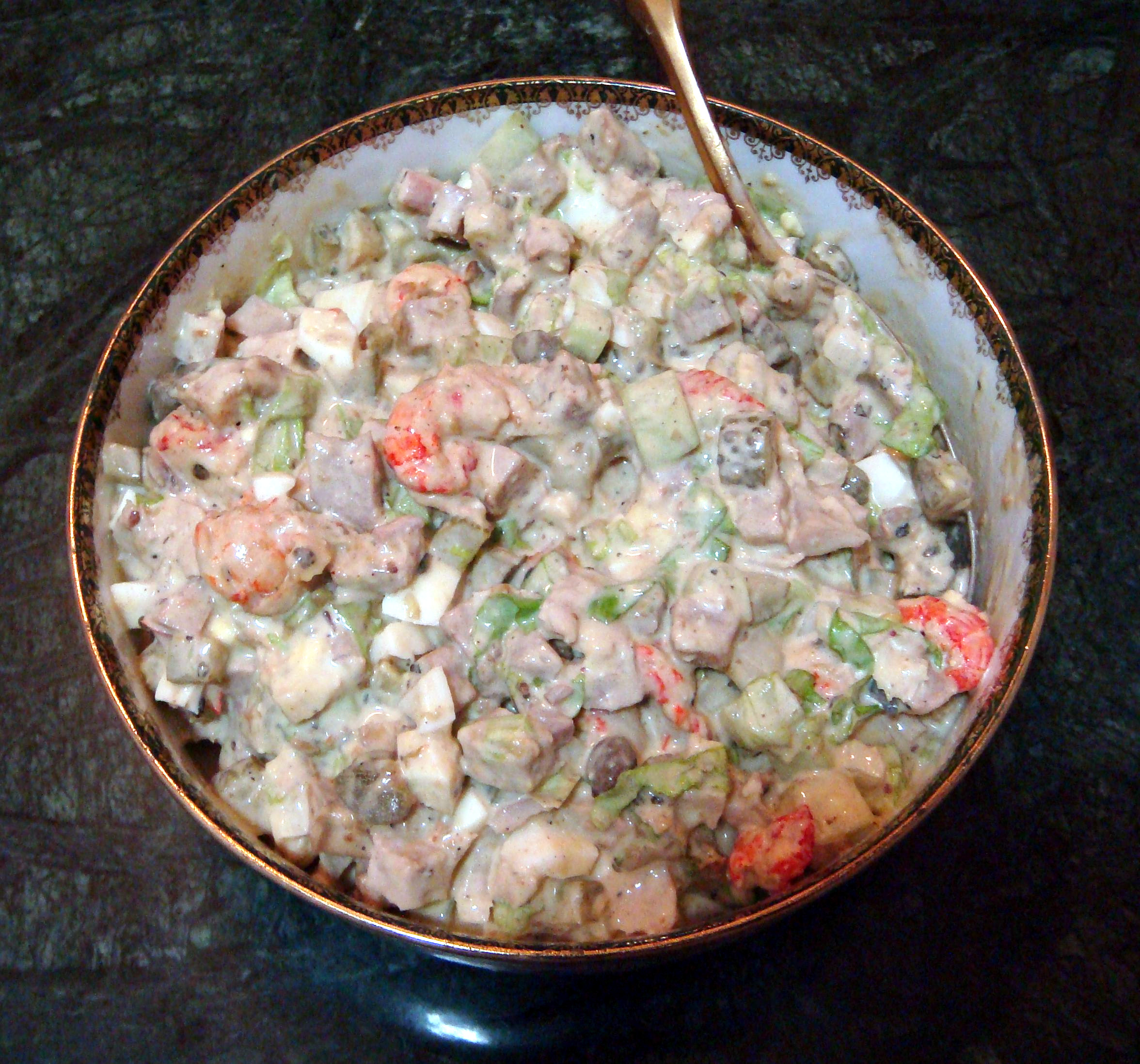 Popular "Russian Salad", cooked as per recipe, known as "original one" of Lucien Olivier restaurateur of Hermitage restaurant, Moscow, in 1860s